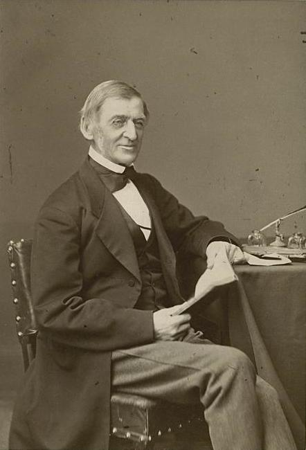 Photo of American Transcendentalist, writer, and minister Ralph Waldo Emerson.